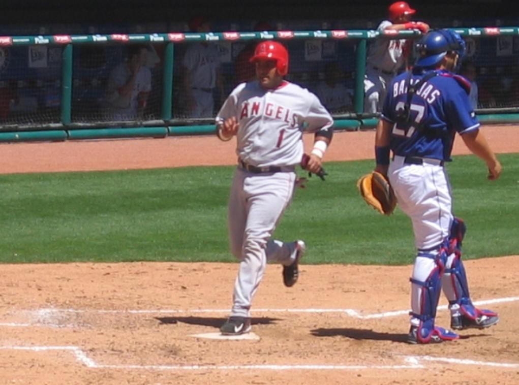 Bengie Molina of the Anaheim Angels scores a run at Ameriquest Field on April 11, 2005. Cropped from original photo: [1] Photo by: Rich Anderson 14:27, 4 April 2007 . . Mattingly23 . . 1,021×758 (97 KB)